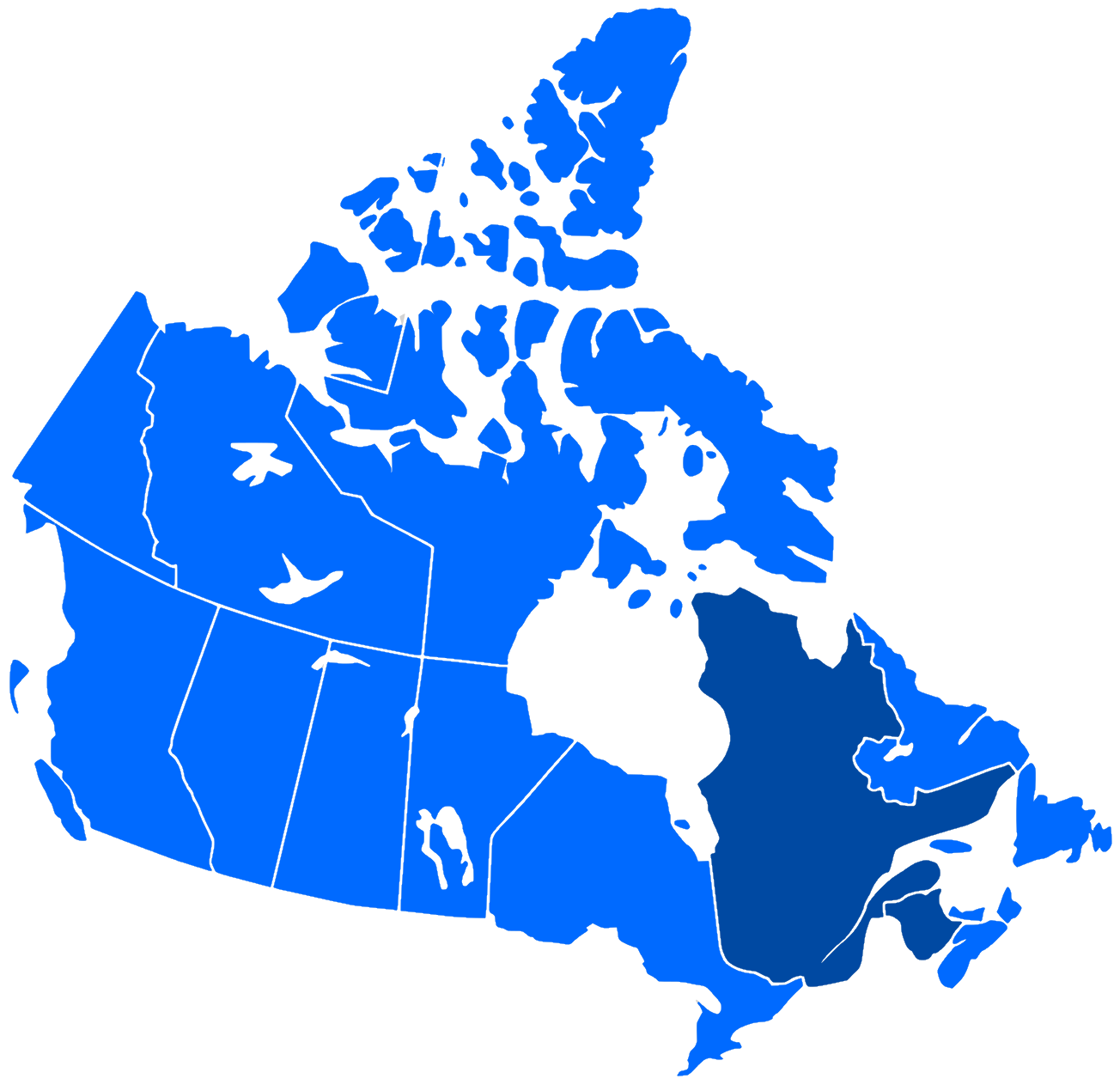 French language distribution in Canada. Regions where Canadian French is the main language (Quebec and New Brunswick) Regions where Canadian French is an official language but not a majority native language (rest of Canada)